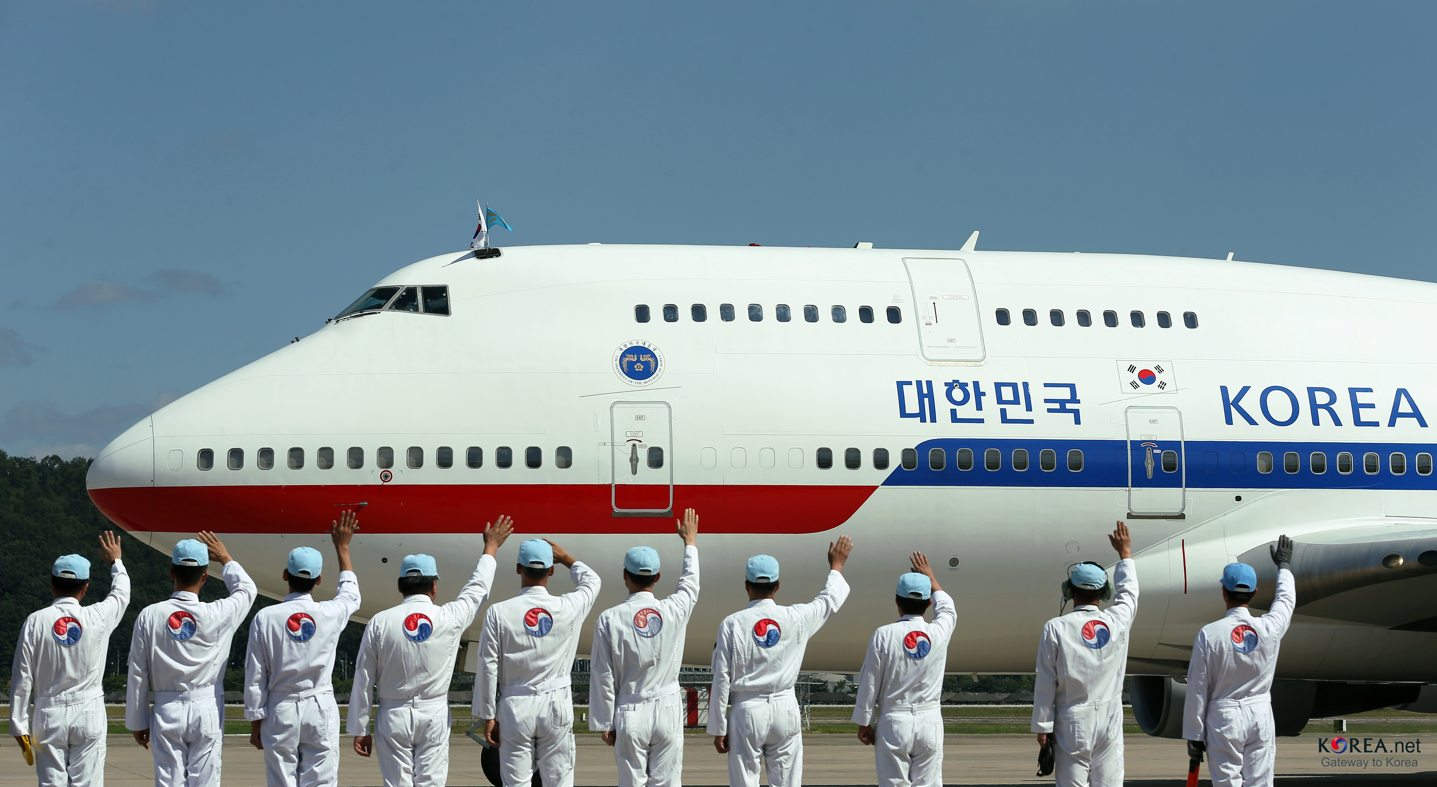 President Park Geun-hye embarks on her Russian trip The crowds wave to the airplane where President Park is onboard before its September 4 departure for Saint Petersburg, Russia 2013.09.04 Seoul Airport -Related Article- English President departs for Russia to attend G20 Summit Ministry of Culture, Sports and Tourism Korean Culture and Information Service ( JEON HAN 박근혜 대통령 G20 정상회의 및 베트남 국빈방문을 위해 출국 박근혜 대통령이 4일 러시아에서 열리는 G20 정상회의 참석을 위해 서울공항을 통해 출국을 하고 있는 가운데 서울공항 관계자들이 환송 인사를 하고 있다. 서울공항, 성남시 문화체육관광부 해외문화홍보원 코리아넷( 전한